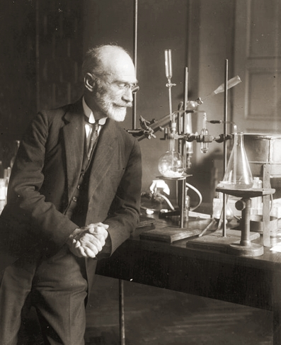 Leon Marchlewski (1869-1946) - Polish chemist. rector of Jagiellonian University (1928), brother of Julian Marchlewski